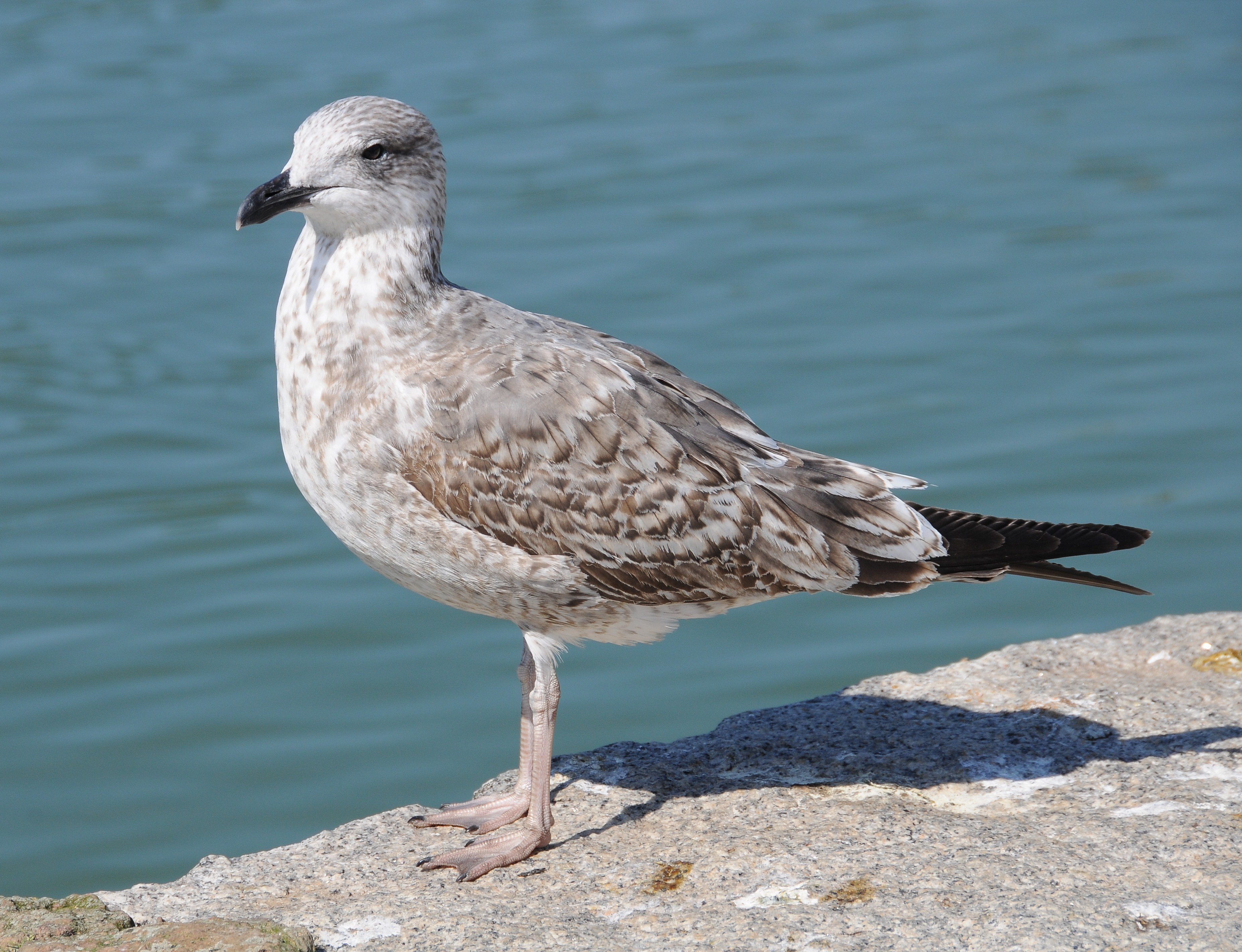 Immature Yellow-legged Gull in Parque da Cidade, Porto Portugal.